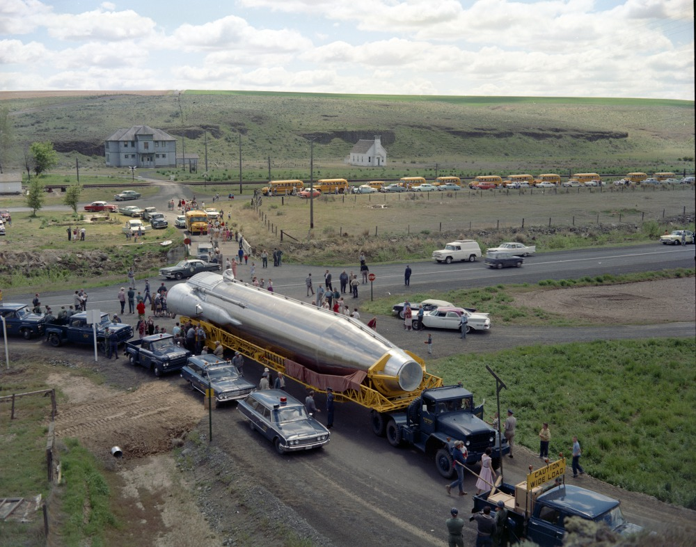 PictionID:43736385 - Title:Atlas 41E Missile in Transport to FAFB 567-5 (I); Shown During Brief Stop for School Children at Lamona, Washington. Date: 05/15/1961 - Catalog:14_006186 - Filename:14_006186.TIF - - - - Image from the Convair/General Dynamics Astronautics Atlas Negative Collection---Date comes from GD data. Please Tag these images so that the information can be permanently stored with the digital file.---Repository: San Diego Air and Space Museum